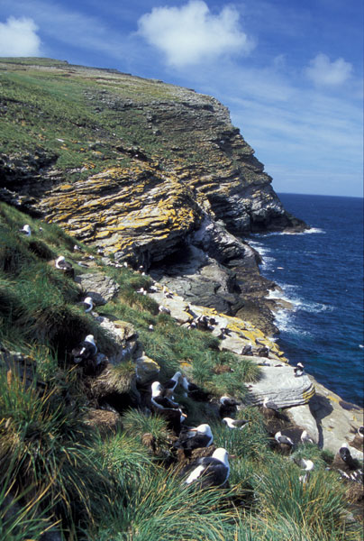 Black-browed albatrosses on West Point Island. Copyright 2004, Ryan Holliday. The original image can be found at